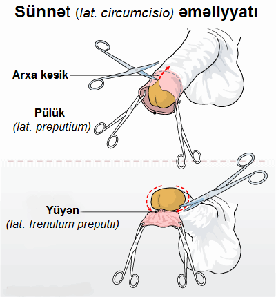 Circumcision operation